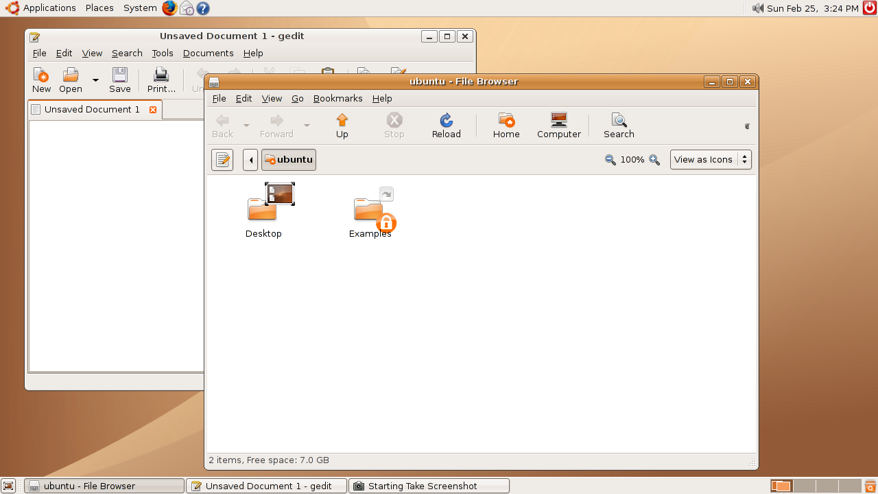 Screenshot of Gnome 2.16 on Ubuntu Linux 6.10 (Edgy Eft).